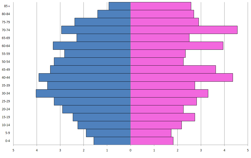 Population pyramid of Vilafranca, Els Ports, Spain